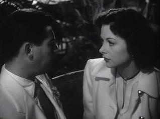 Cropped screenshot of John Hodiak and Hedy Lamarr from the film A Lady Without Passport (1950).